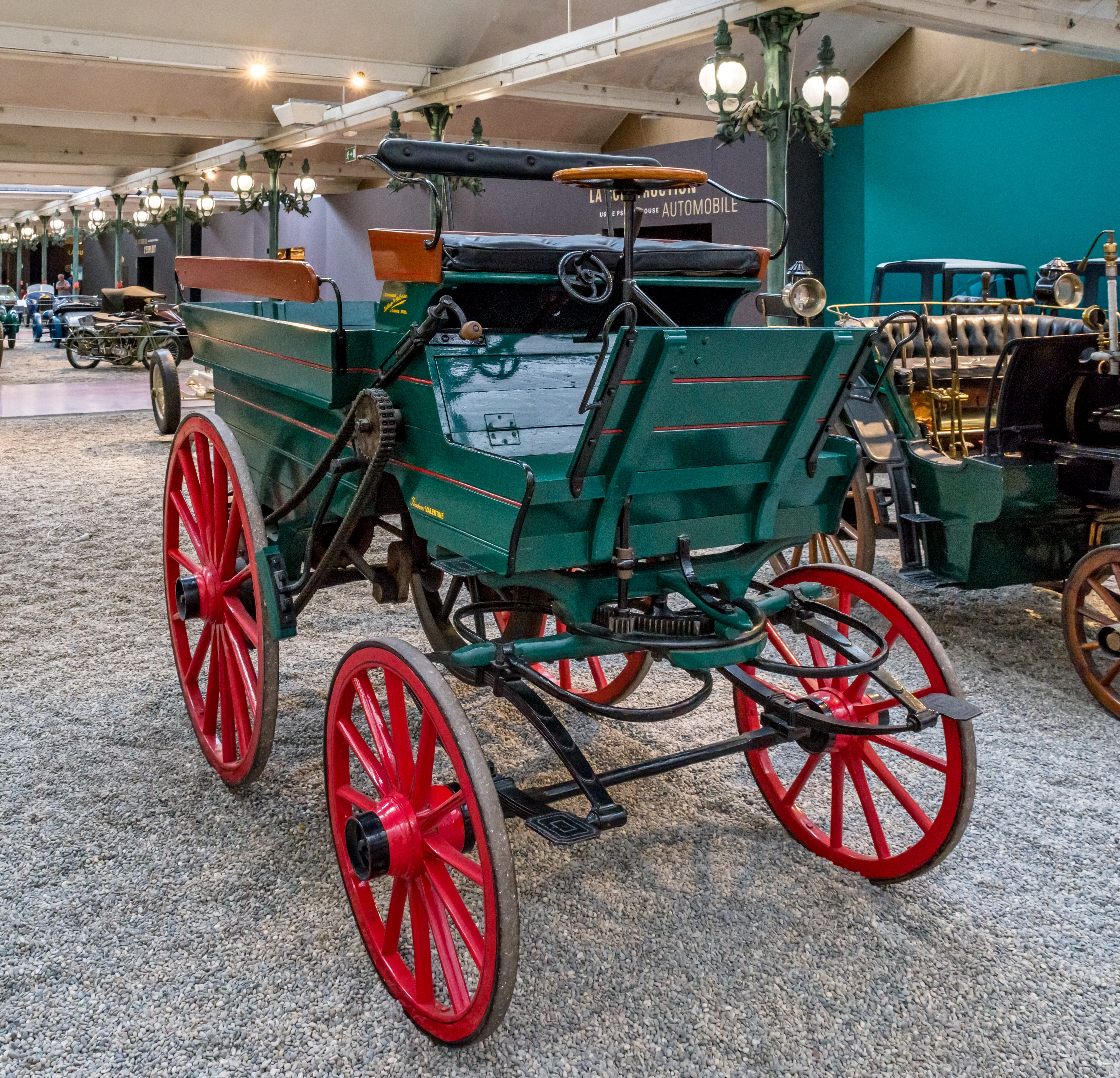 pictures from the Cité de l’Automobile – Musée National – Collection Schlump in Mulhouse, France ptictures from the 10. may 2018